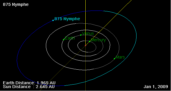 875 Nymphe orbit, and his position on 01 Jan 2009 (NASA Orbit Viewer applet)